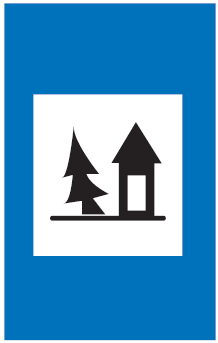 Diagram of road signs of Luxembourg